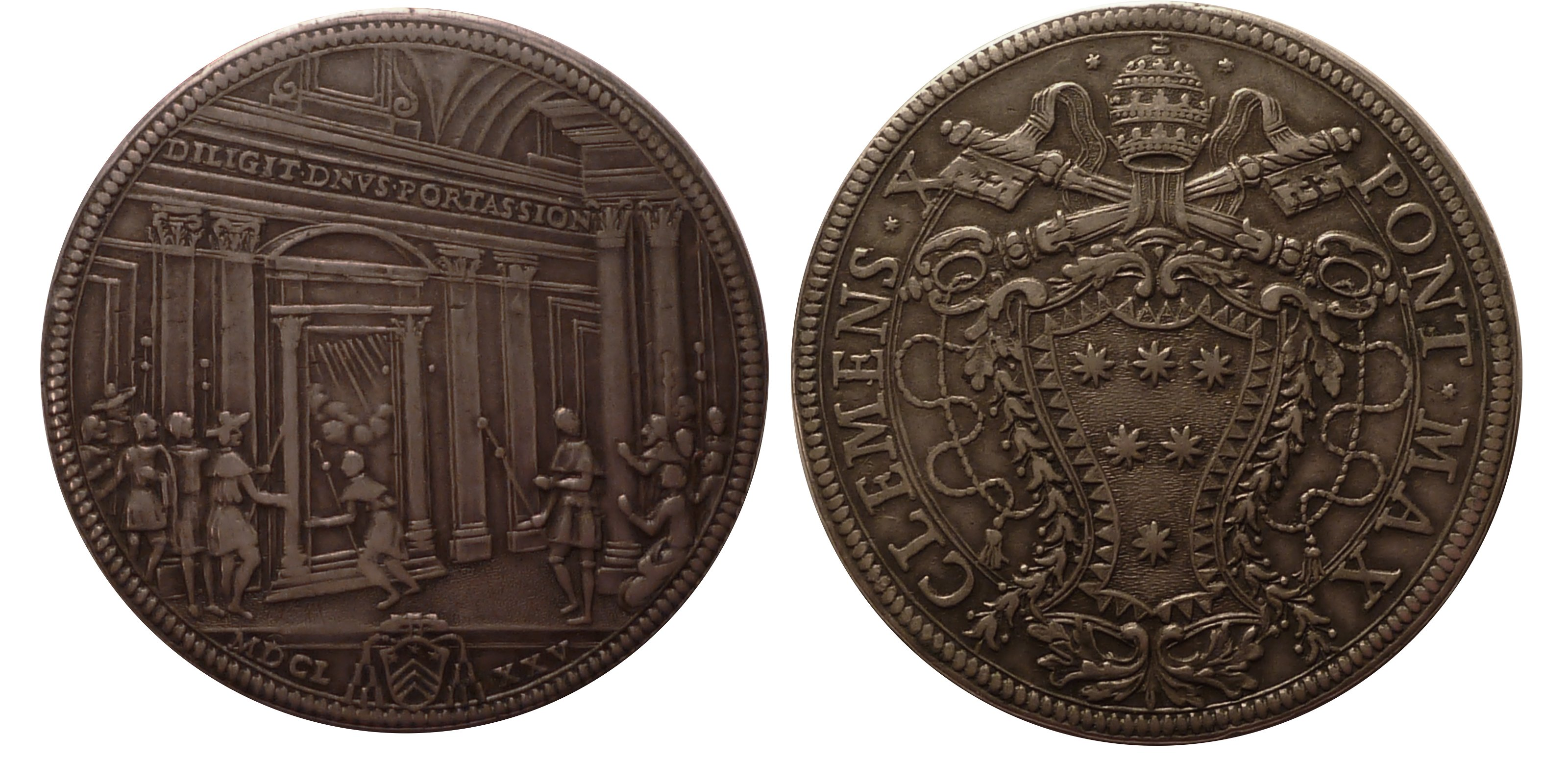 Papal States, Clement X (r. 1670-1676). 1 Piastre, 1675. Holy Year issue, mint of Rome.